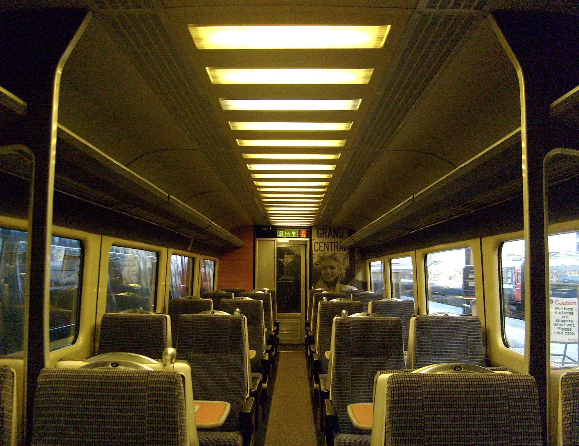 The refurbished Standard Class interior of a Grand Central Mark 3 TS vehicle